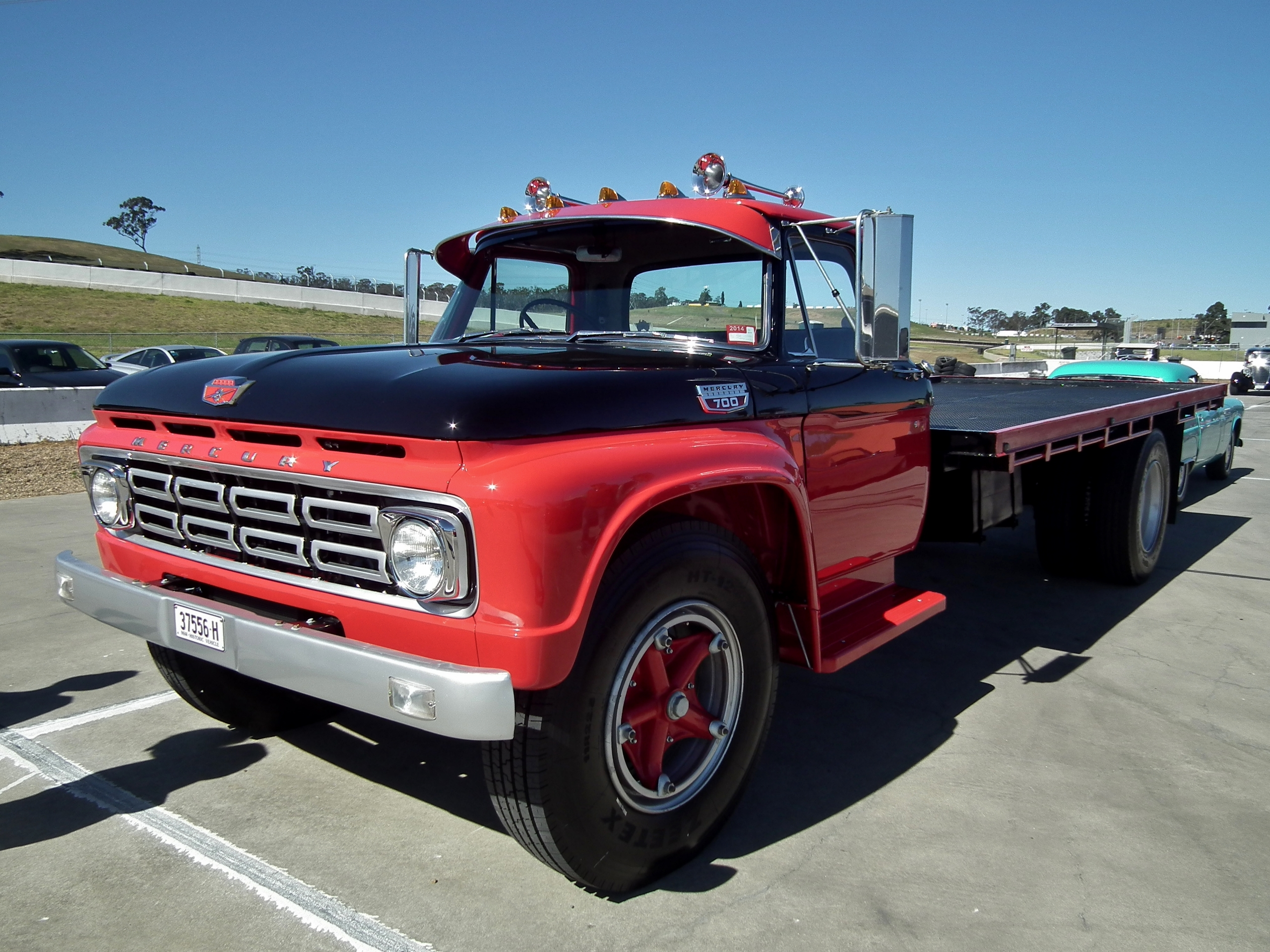 1964 Mercury M-700 table top truck. Taken at the 2013 Shannon's Eastern Creek Classic display day, held at Sydney Motorsport Park.